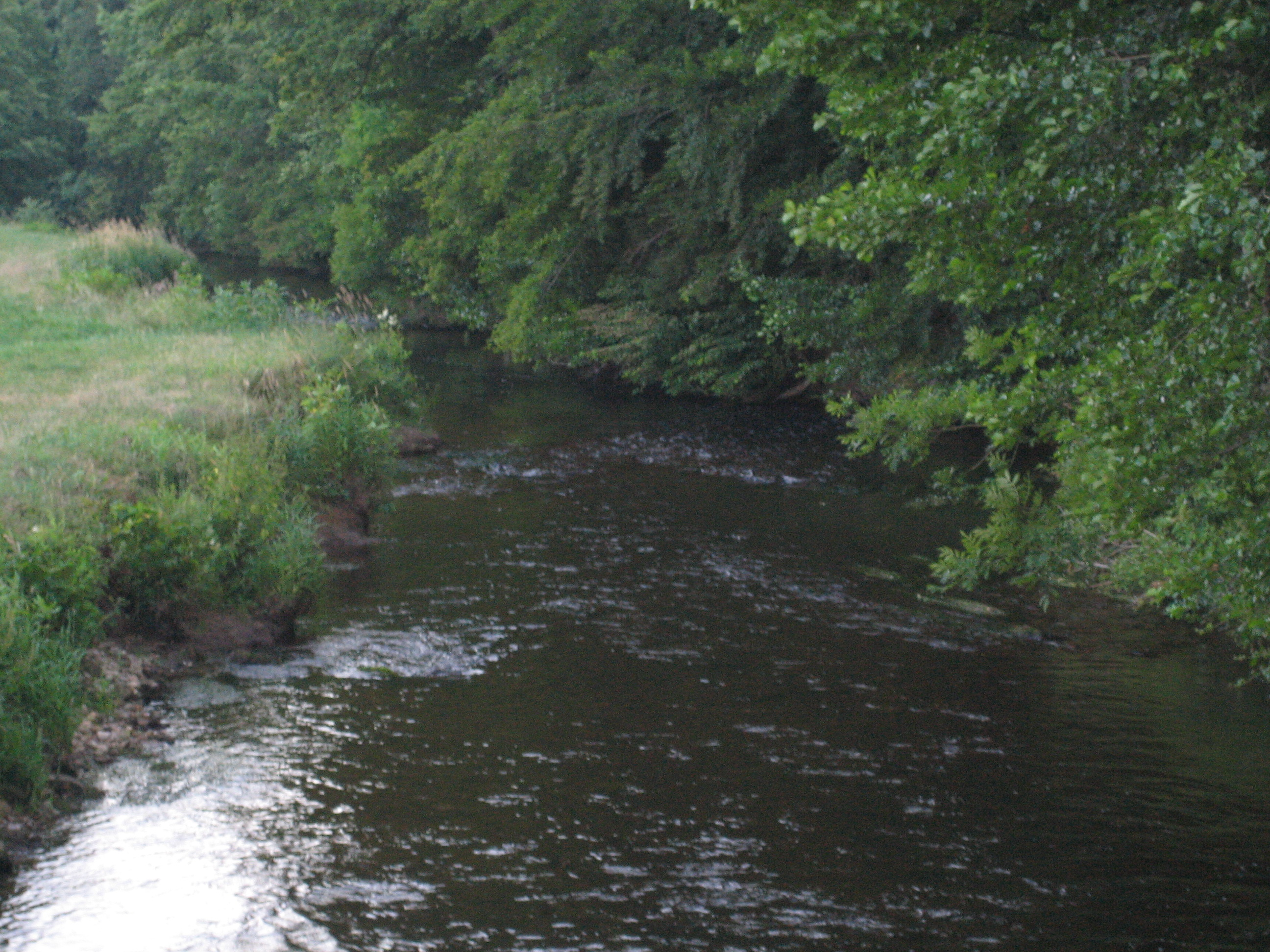 view of the Vologne river (Deycimont, France) 2006/07 by Raphaël Tassin (raphdvoj)